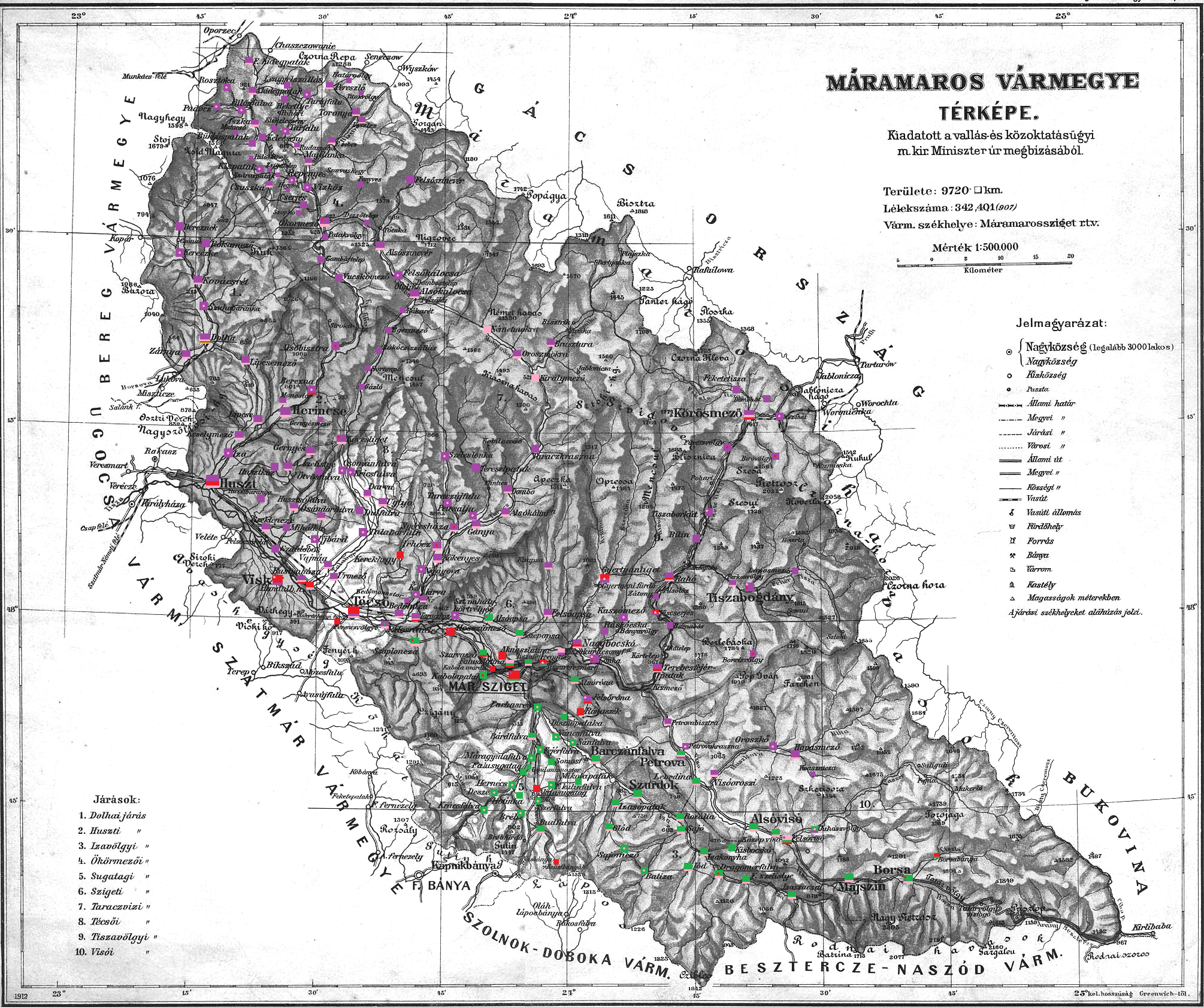 Ethnic map of the county (with data of the 1910 census). Key: violet - Ruthenians; dark green - Romanians; red - Hungarians; pink - Germans. Coloured dots in plain rectangles imply the presence of smaller minority populations (generally more than 100 people or 10%). Multicoloured rectangles imply cities and villages with multi-ethnic populations with the order of the stripes following the ethnic composition of the settlement.